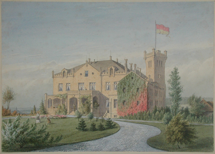 Emil Zeiß: "Rittergut Steinbeck" (near Wüsten, Bad Salzuflen); watercolour painting, 24,5 x 35,0 cm. Today owned by the 'Lippisches Landesmuseum', Detmold, inv.no. 196/93